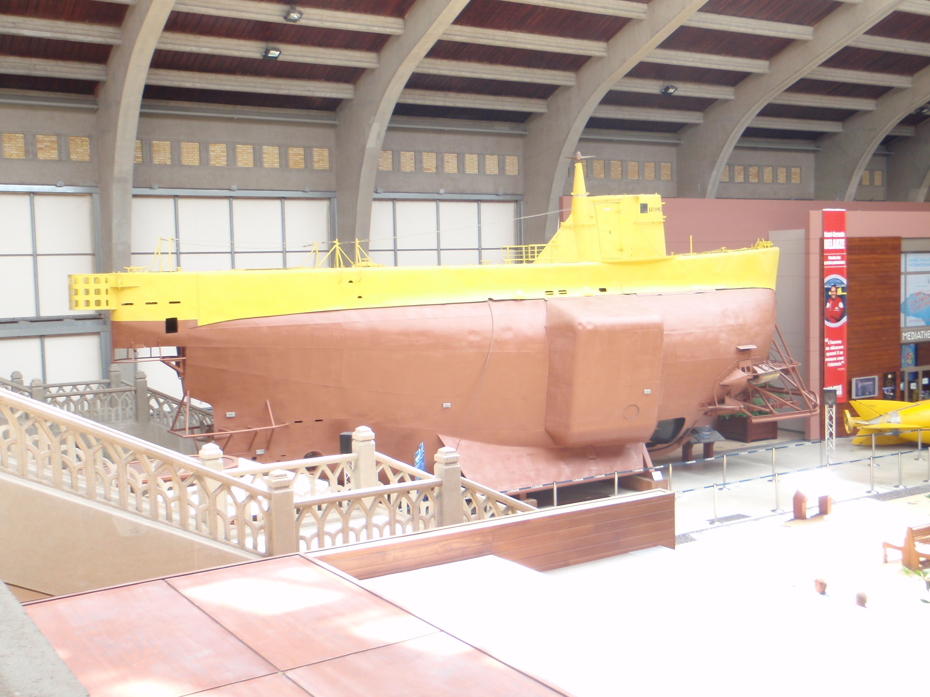 "Bathyscaphe 2" Bathyscaphe Archimède, famous for having reached the bottom of the second deepest place in the Pacific Ocean, (only beaten by J.Piccards "Trieste" & the US). B.2 is french and located in Cherbourgh